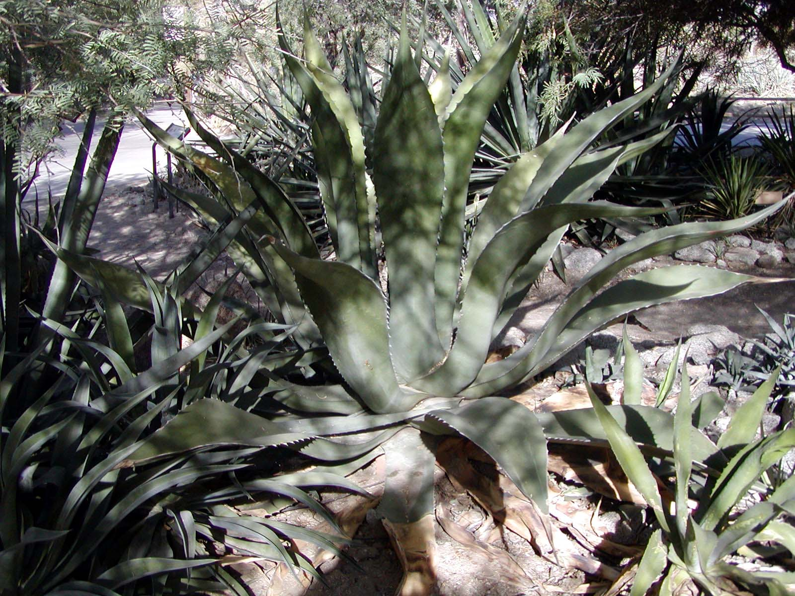 Photo of Agave inaequidens ssp. barrancensis at the Living Desert in Palm Desert, California